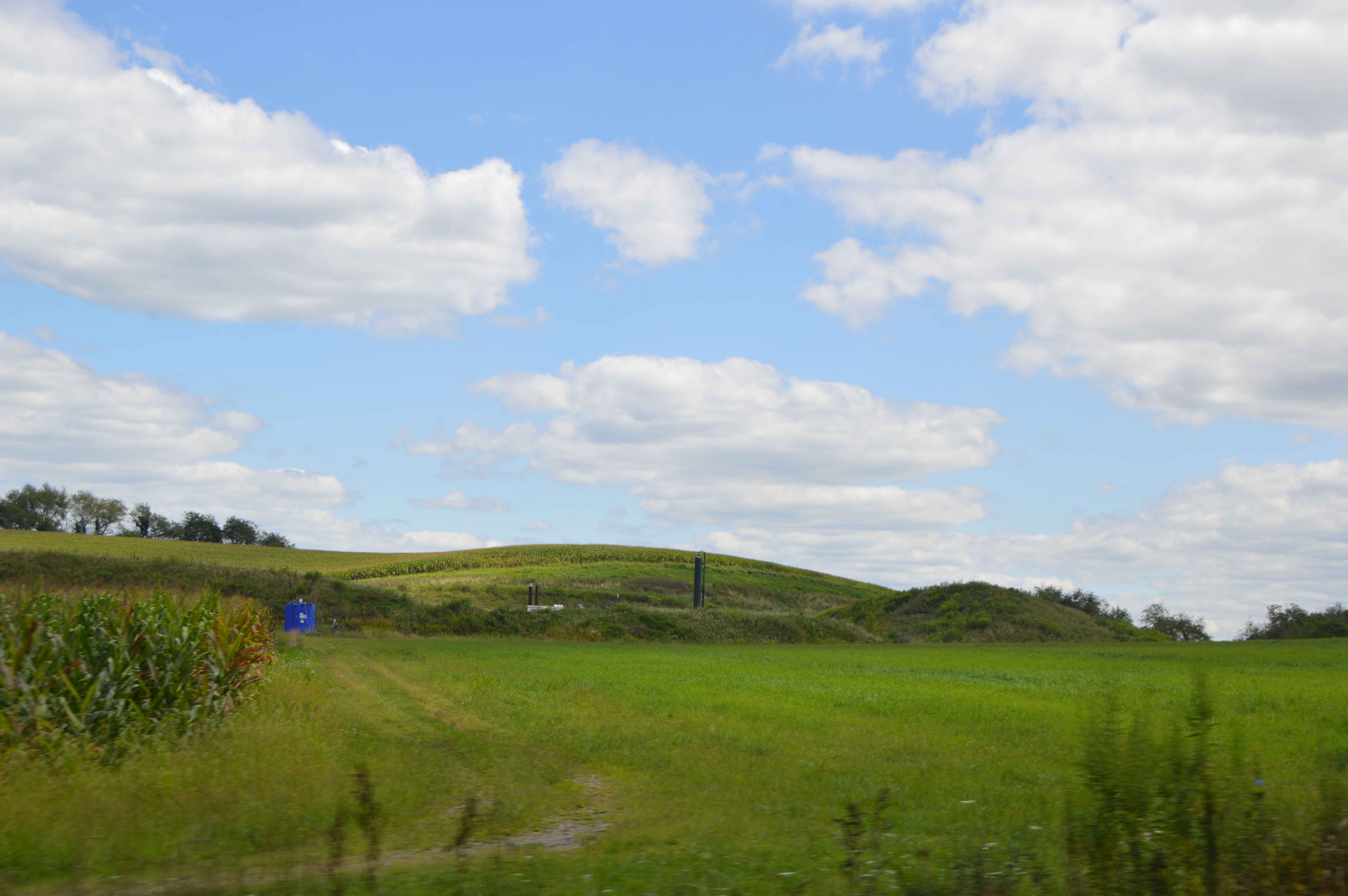 Fields along Pennsylvania Route 981 north of New Alexandria in southeastern Loyalhanna Township, Westmoreland County, Pennsylvania, United States.